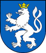 Coat of arms of Senec, Slovakia